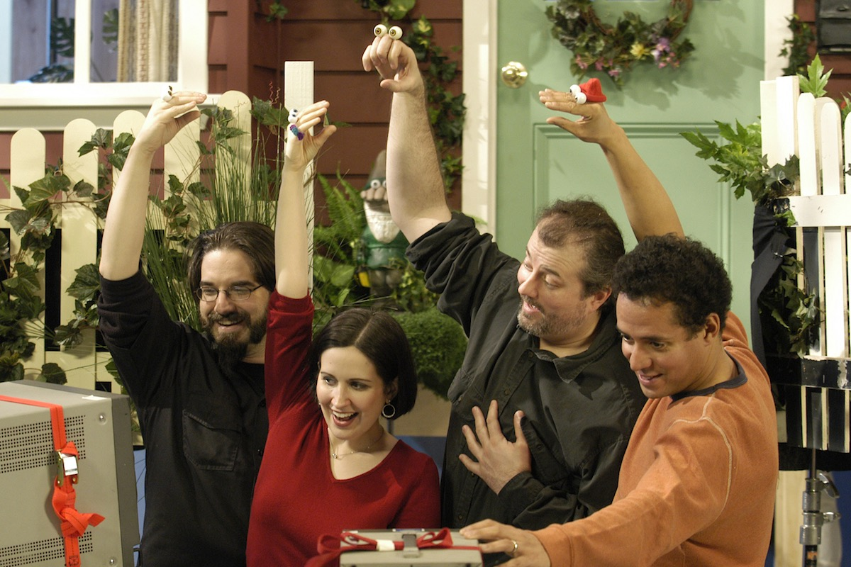 Set photo from Kaufman Astoria Studios, during 2004 taping of "Oobi" season 2